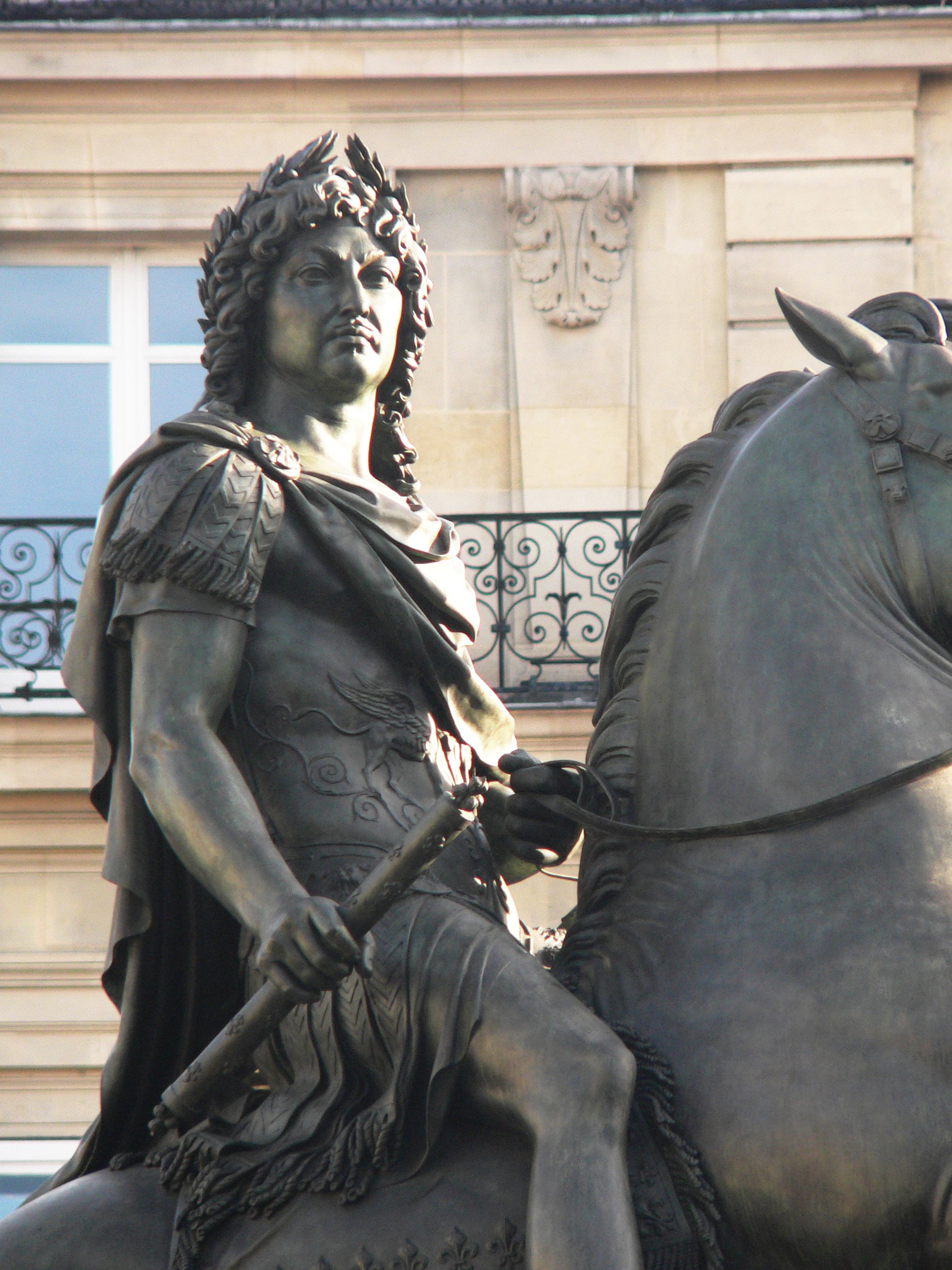 Statue of king Louis XIV of France at the Place des Victoires in Paris